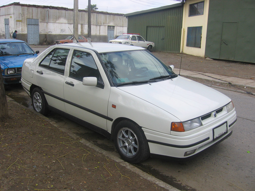 Seat Toledo 1.6 GLX 1994